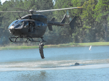 A test jumper from Yuma Training Center, Yuma, Ariz., exits a Lakota UH72A Light Utility Helicopter during developmental testing at Alligator Lake Sept. 30. The jump was part of a mission capabilities test for the Lakota and is the first official time the aircraft was used for helo cast. Static line parachute capabilities were also tested. S